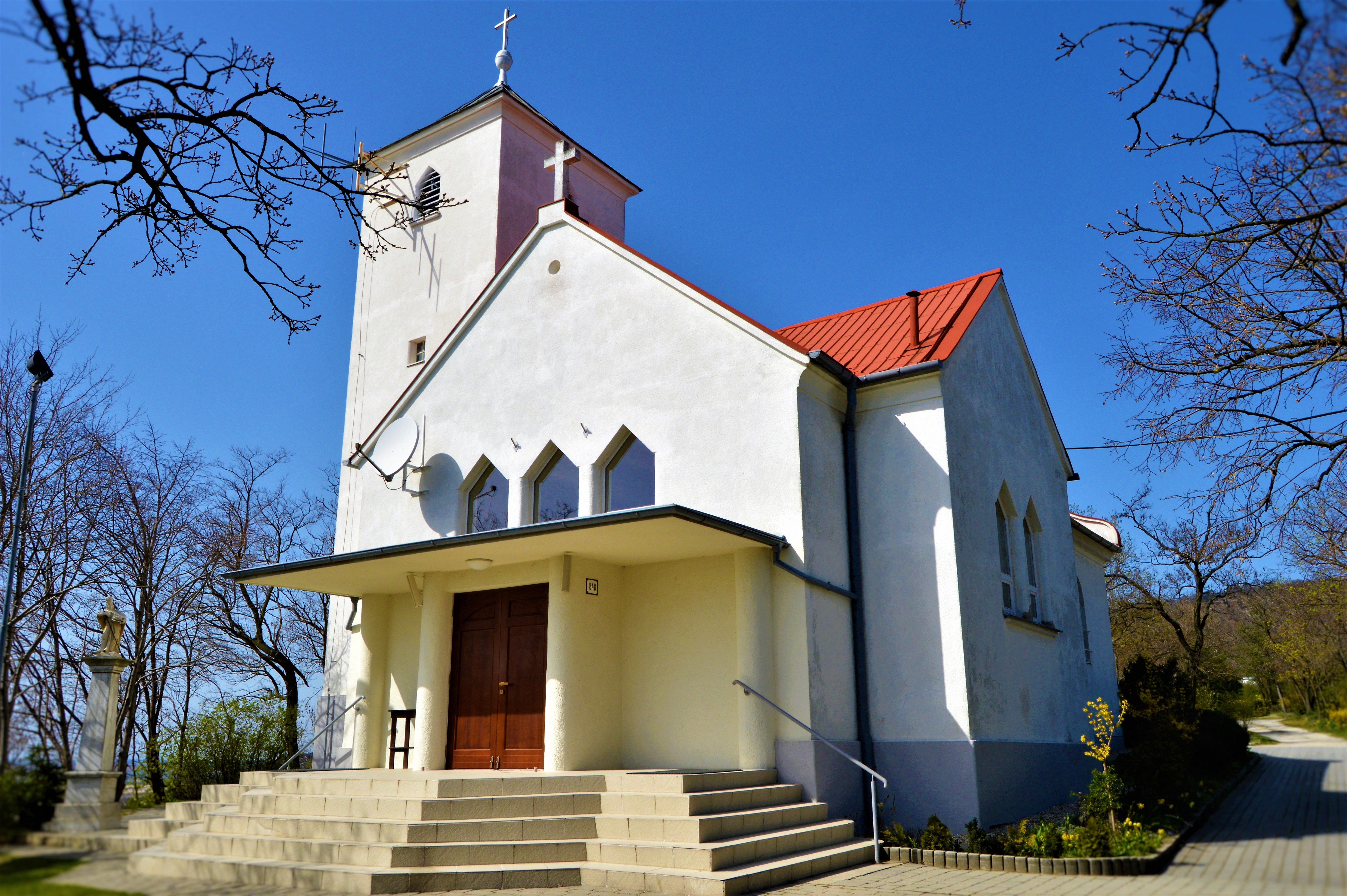 Church saint Urban, Nitra - Zobor